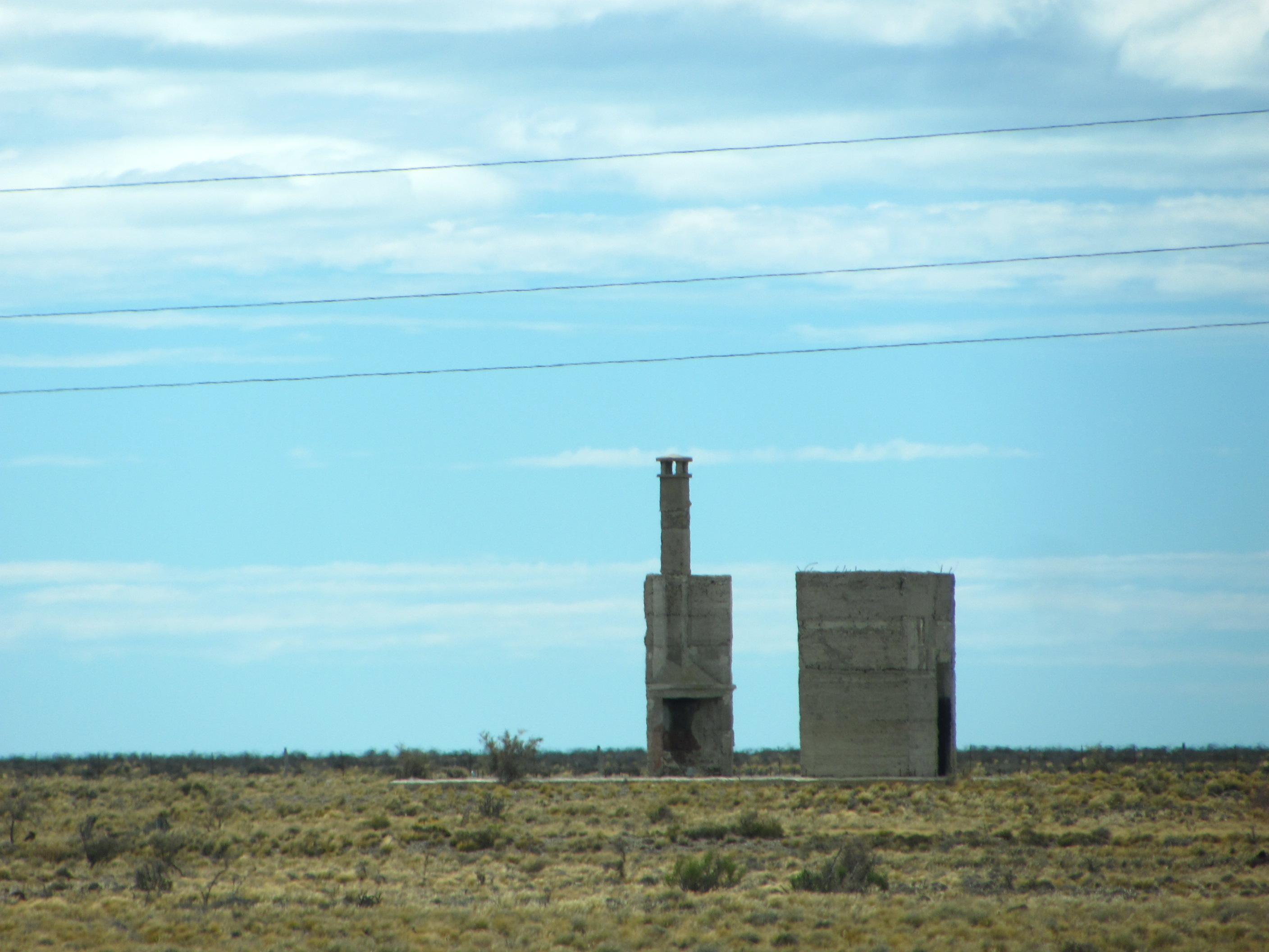 View of the abandoned railway station in Cerro Blanco (Santa Cruz, Argentina)